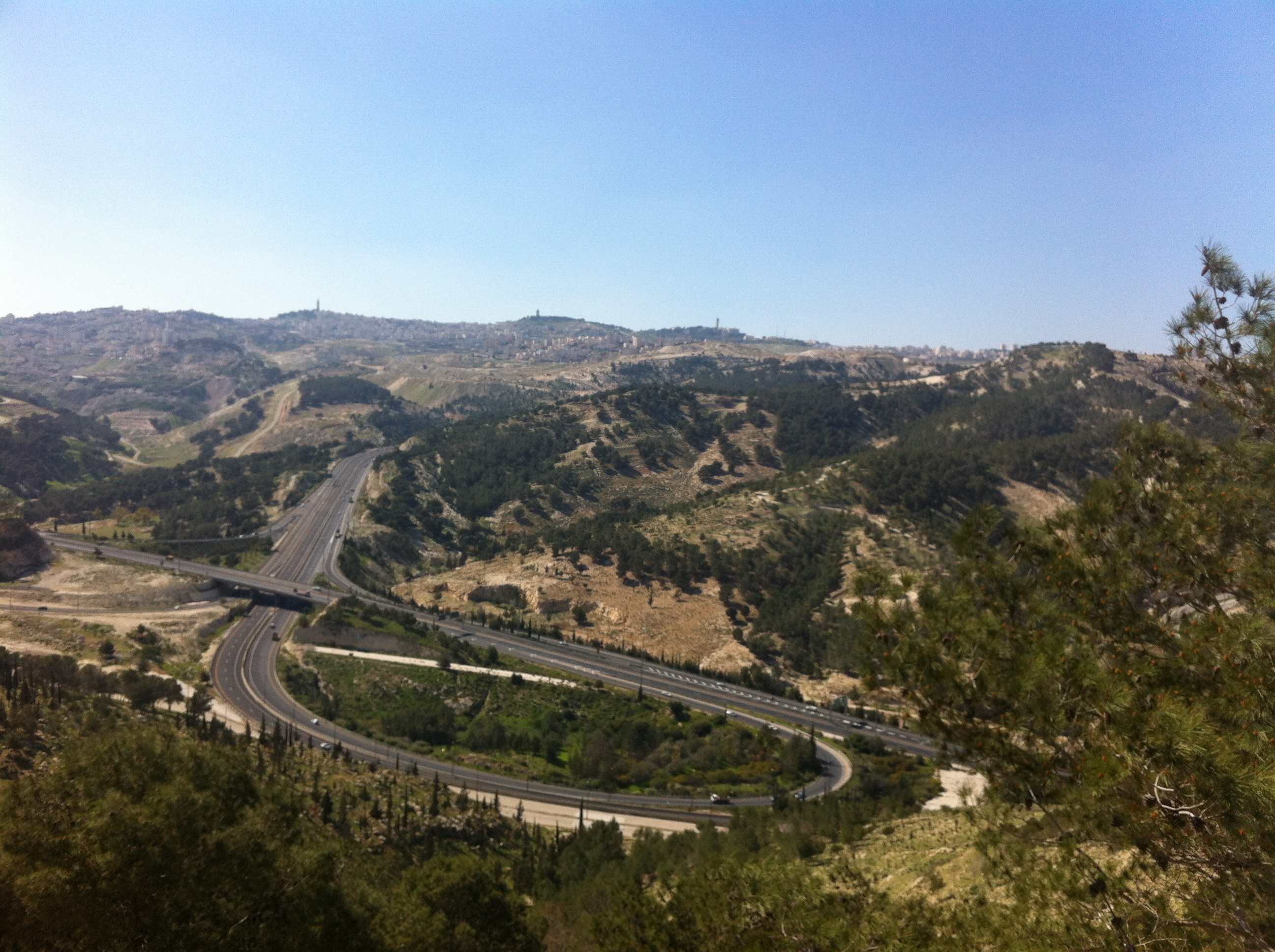 View from Maale Adumim, Geography of Israel